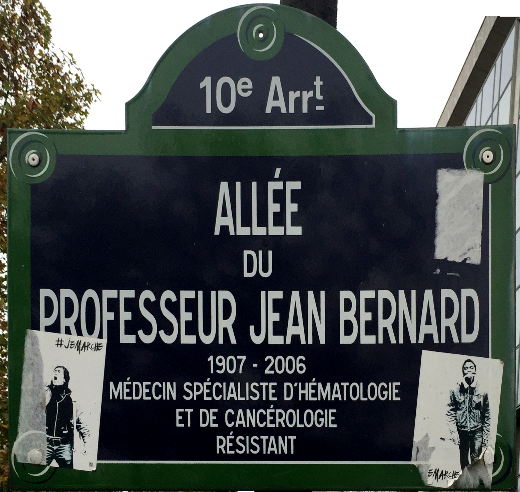 Allée du Professeur-Jean-Bernard.